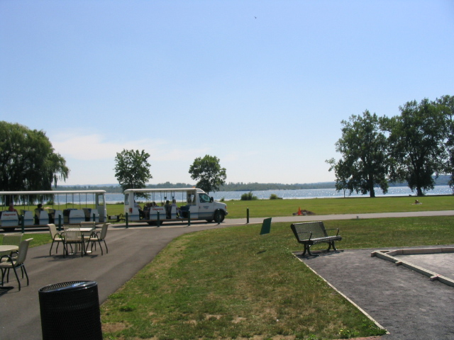 photo of Onondaga Lake Park in Liverpool, NY, taken by me on June 24, 2005